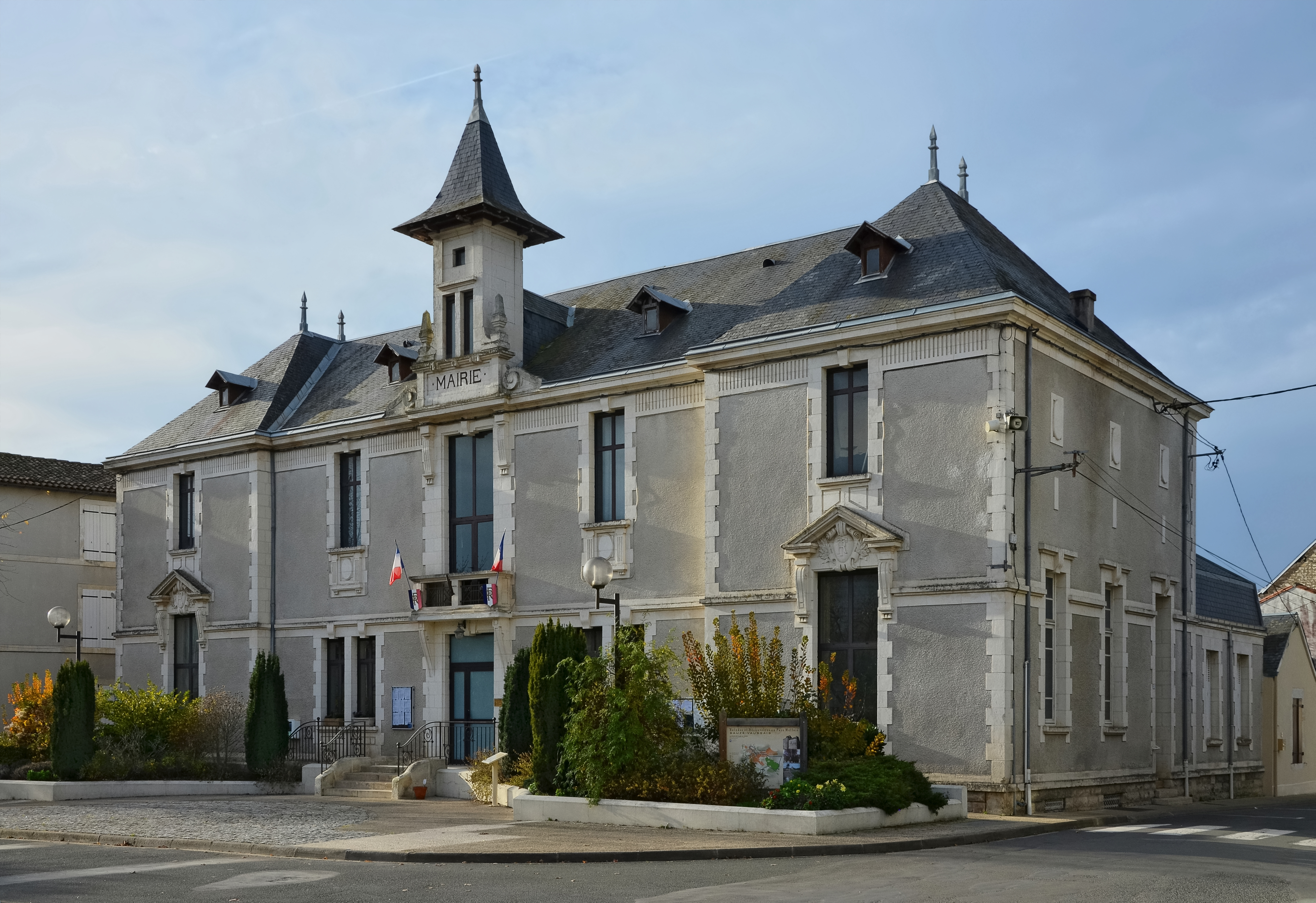 East view of the town hall of Sauzé-Vaussais, Deux-Sèvres, France.